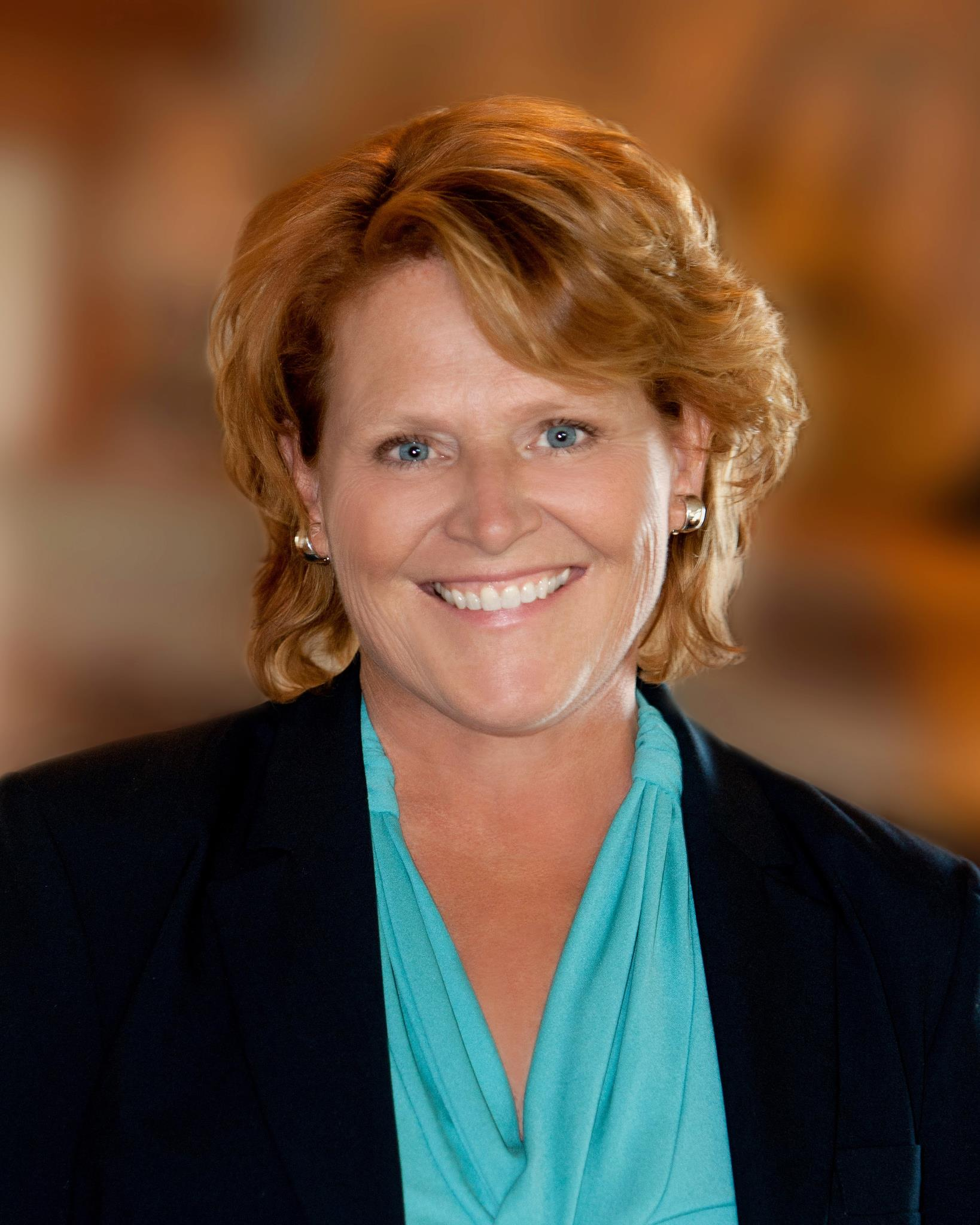 Official portrait of Senator Heidi Heitkamp (D-ND).